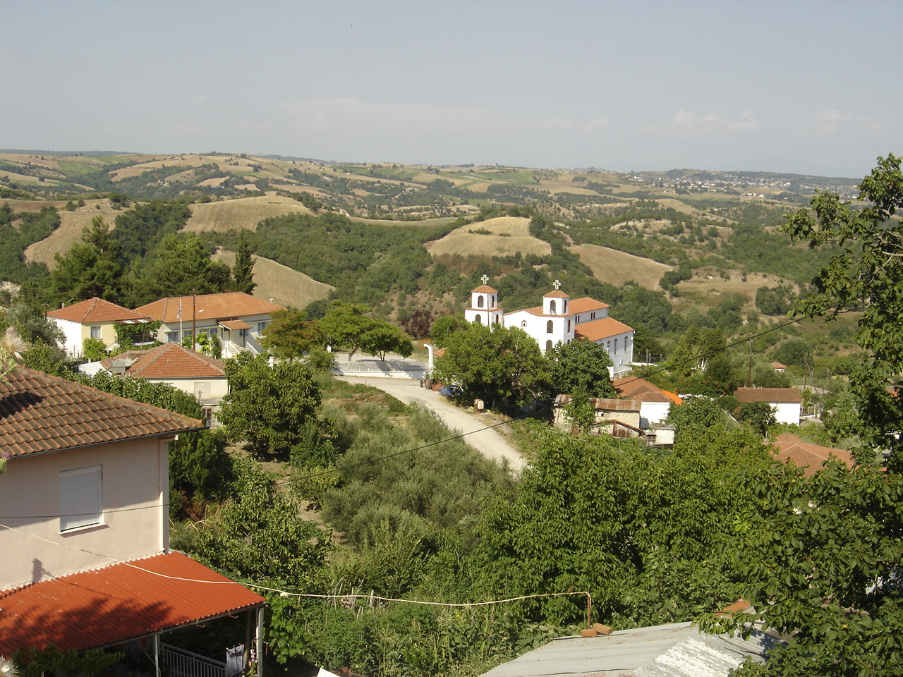 A view from Meliadi.